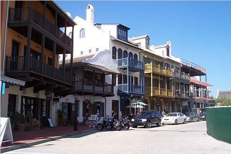 Downtown Rosemary Beach, Florida. Photo by Robert J. Nebel